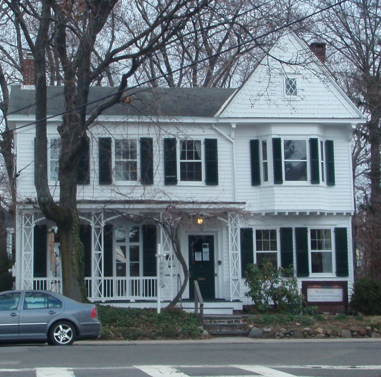 Childhood home of American realist painter Edward Hopper in Nyack, New York, United States